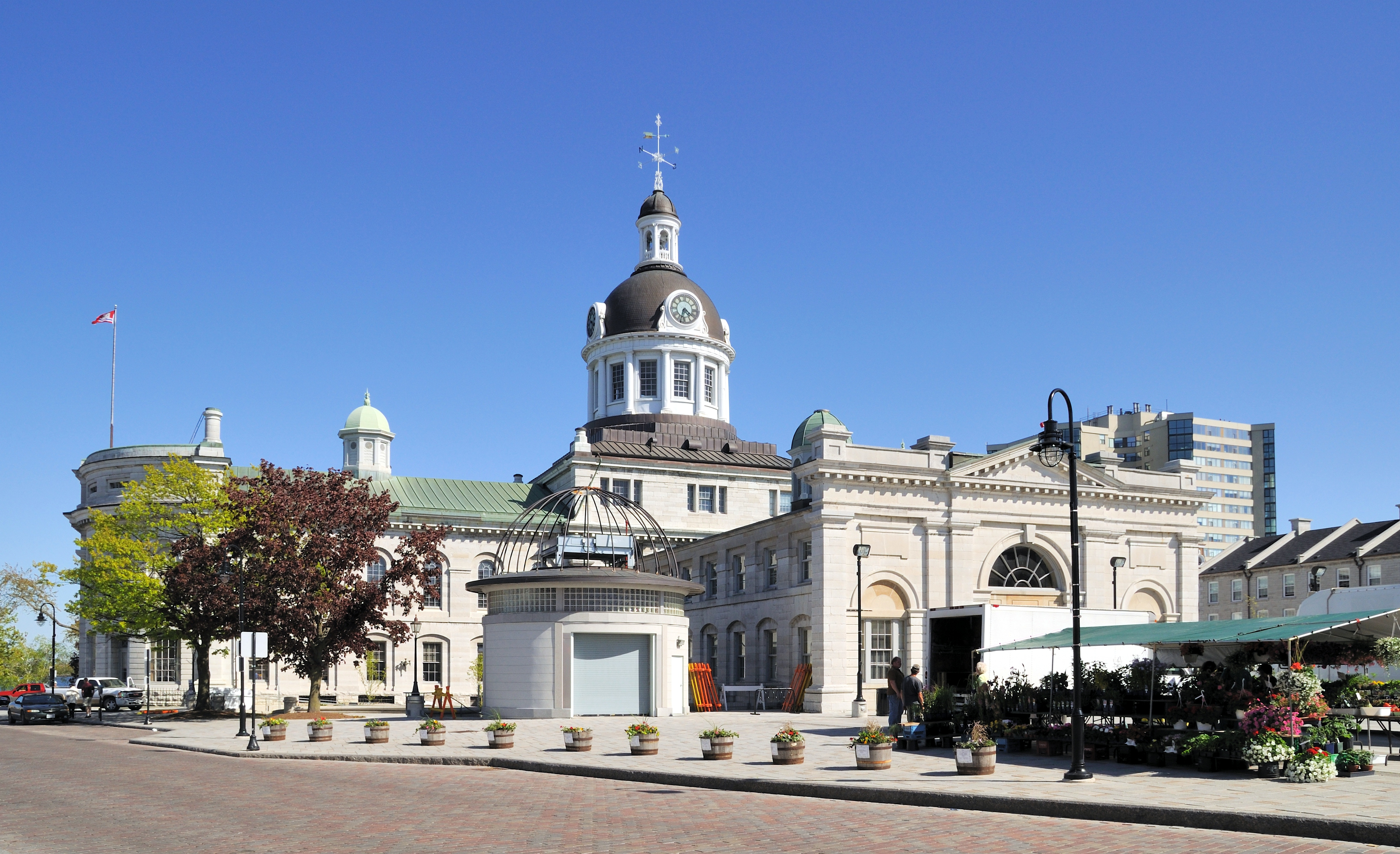 Kingston, Ontario, Canada: Town hall